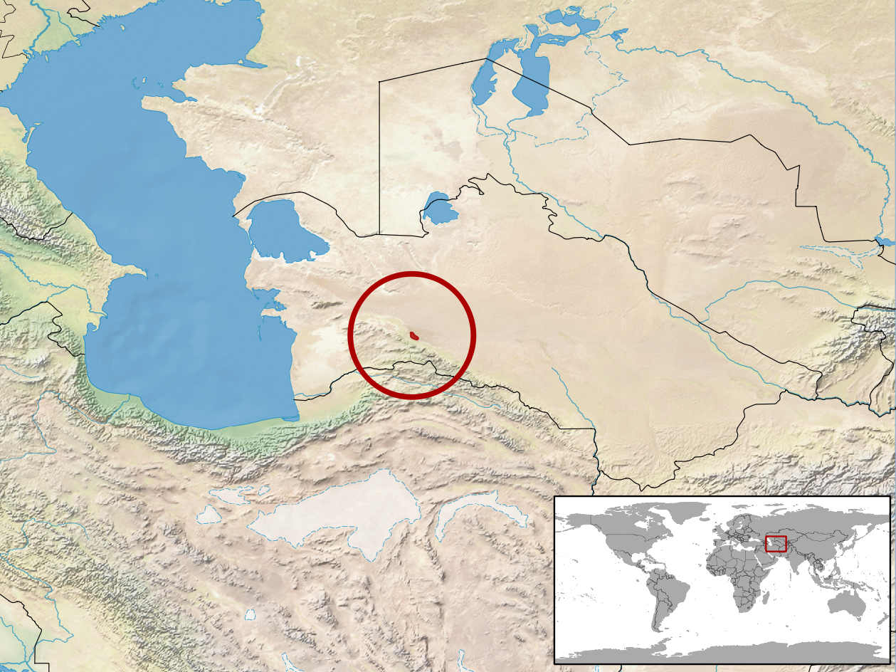 geographic distribution of Phrynocephalus golubewii (Native: Turkmenistan)